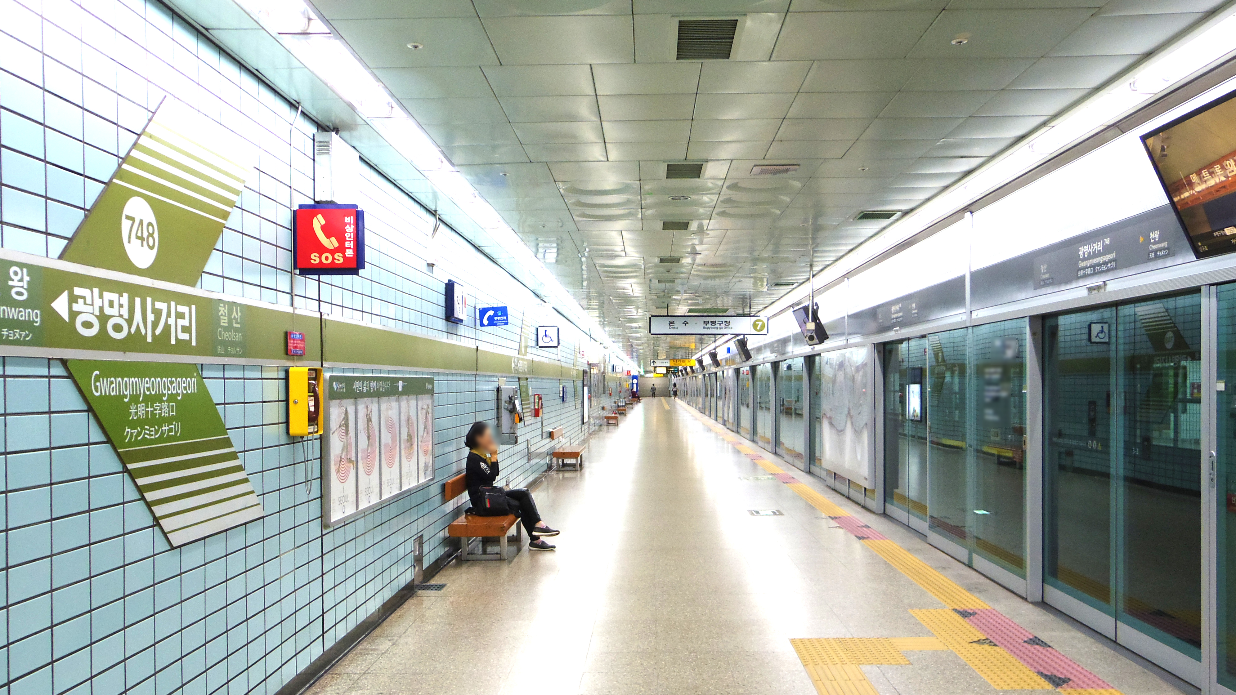 The Onsu-bound platform at Gwangmyeongsageori Station on the Seoul Subway Line 7 in Gwangmyeong city, Gyeonggi-do(province), Republic of Korea(South Korea)